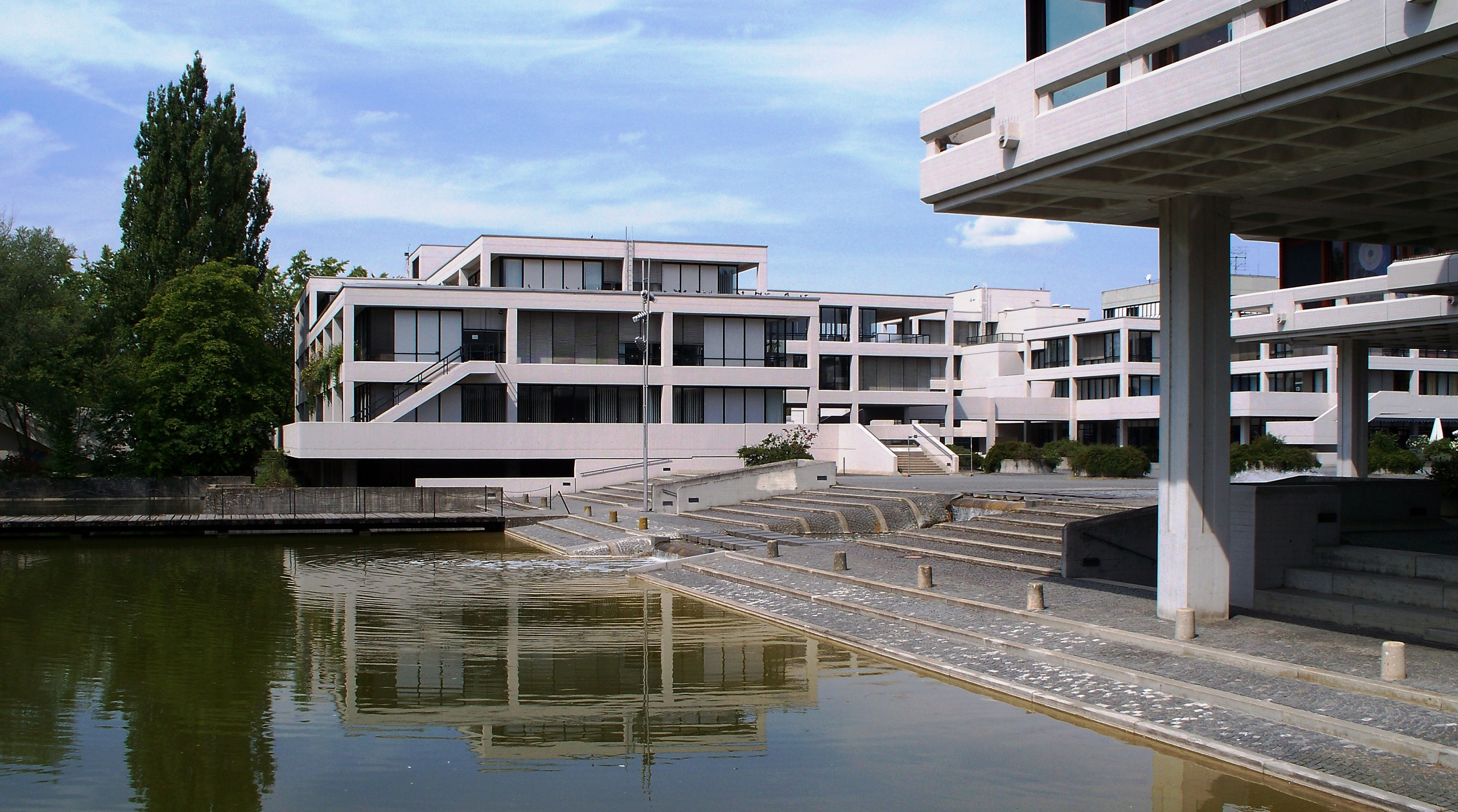 University of Regensburg, Germany.